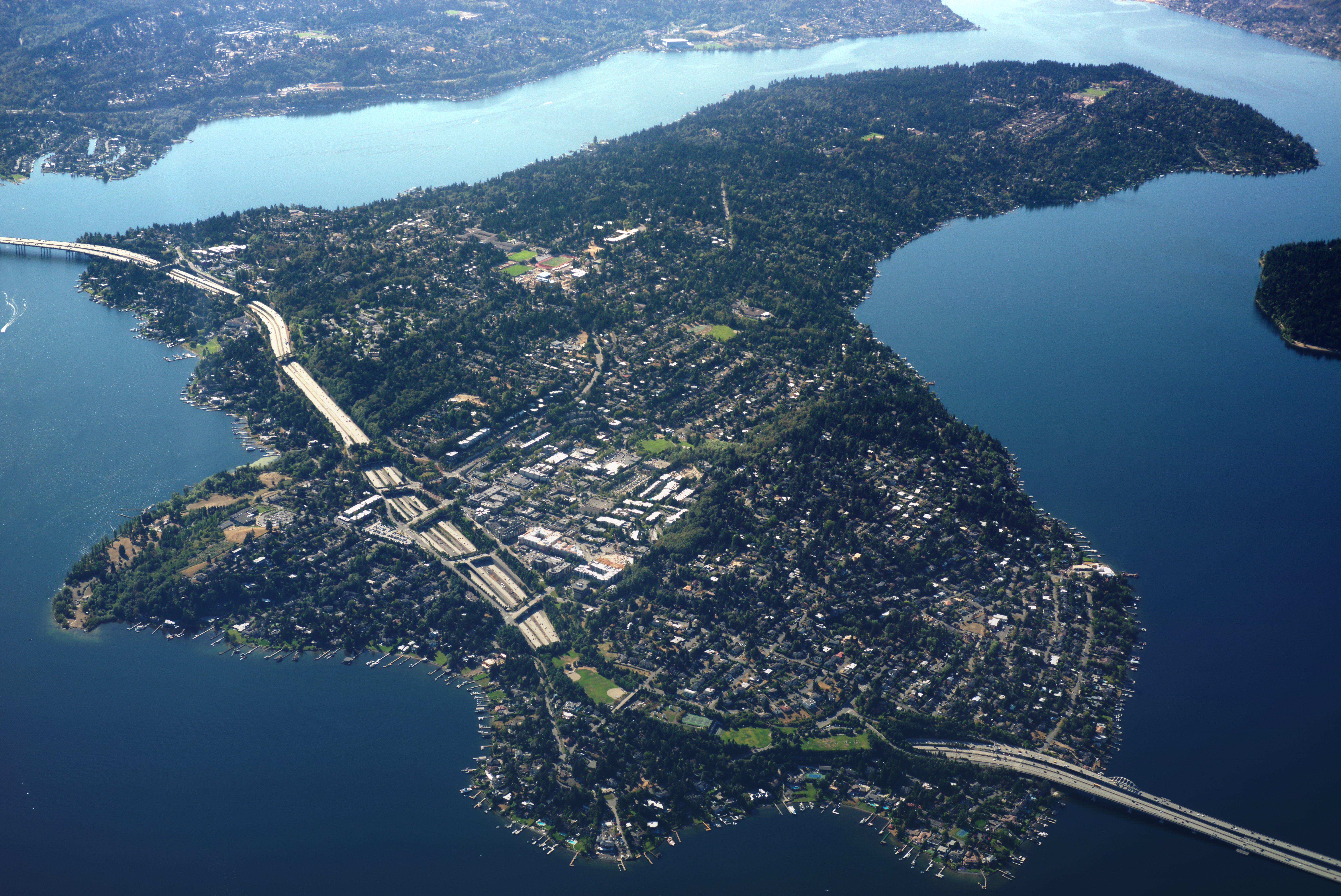 Aerial photo of Mercer Island as seen from the north-west on a commercial flight from Seattle to Detroit. Despite bringing a microfiber cloth to clean the aircraft window, the poor optical quality of the window combined with the hazy weather conditions and strong sunlight glare resulted in a blurry and low-contrast photo.